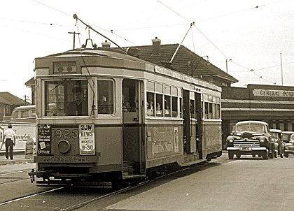 Sydney R class no 1923 at Sydenham, 20 November 1954.